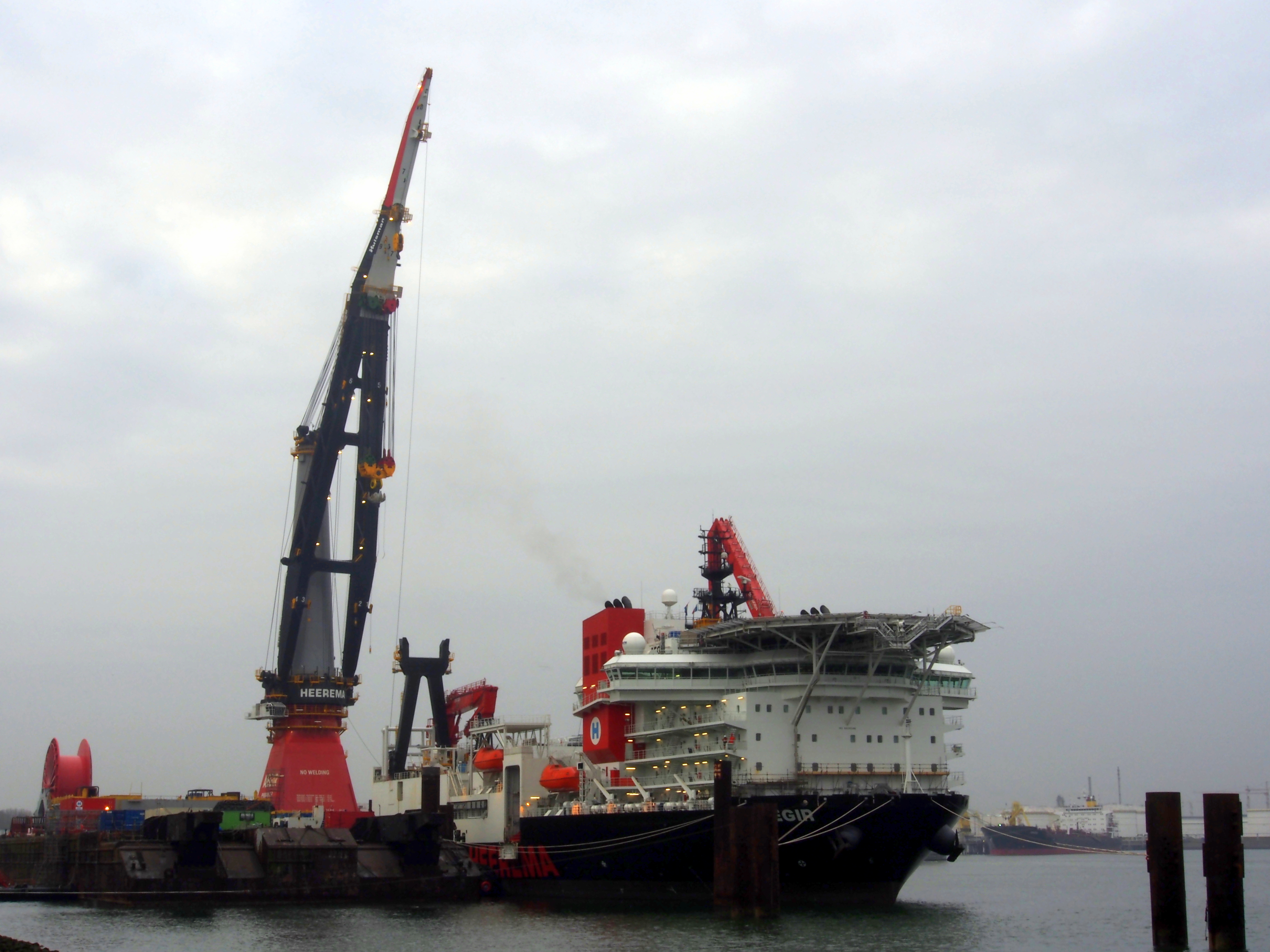 Photographed at Port of Rotterdam.